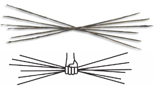 Above: six, rod-shaped oboloi displayed in the Numismatic Museum of Athens. Below: A hand grasping six oboloi formed a drachma.